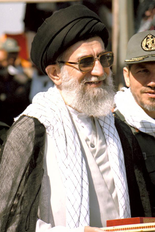 Special military ceremony- University of Imam Hussein -Commander-in-chief of Iranian Armed Forces